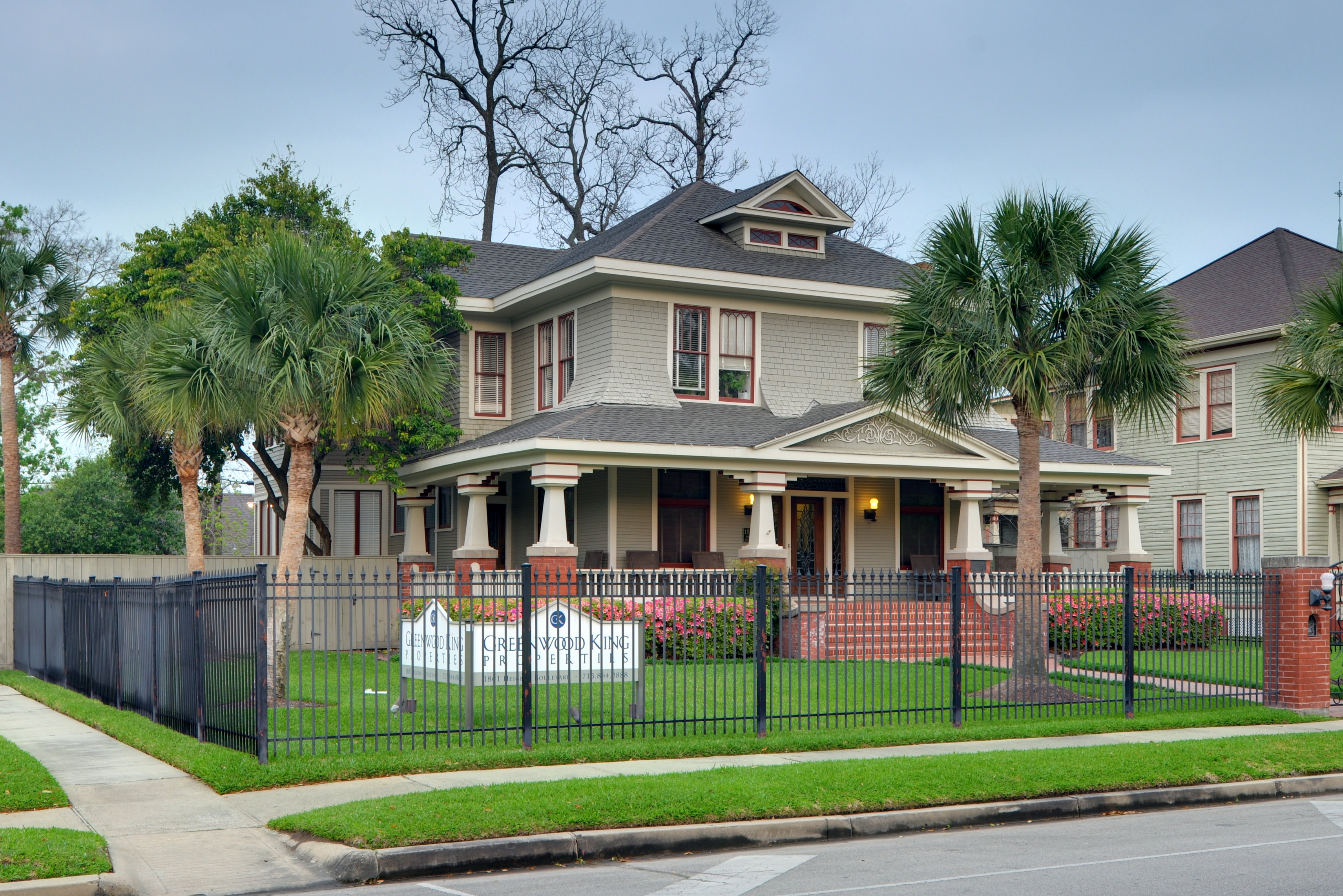 Burge House, at 1801 Heights Blvd., Houston (Texas, USA) is listed in the National Register of Historic Places, United States Department of the Interior.